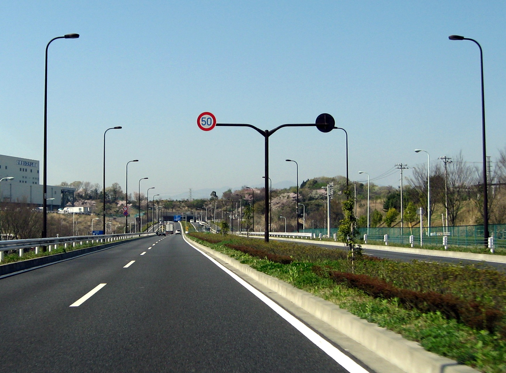 Two lane zone of Minami-tama ridge arterious in Hachioji, Tokyo, Japan.